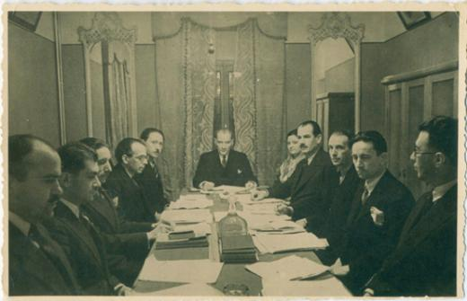 A meeting of the Turkish Language Association, January 4, 1933, Dolmabahçe Palace. Left to right: Hasan Âli (Yücel), Celâl Sahir (Erozan), Ahmet Cevat (Emre), Reşit Galip, Mustafa Kemal (Atatürk), Ayşe Afet (İnan), Ruşen Eşref (Ünaydın), İbrahim Necmi (Dilmen), Hamit Zübeyr (Koşay)